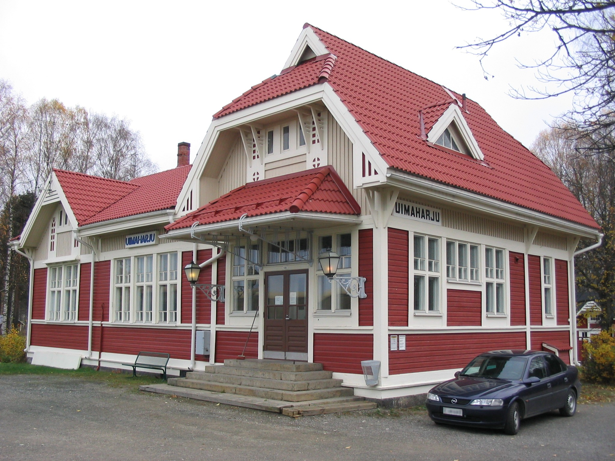 The Uimaharju railway station in Eno, Finland